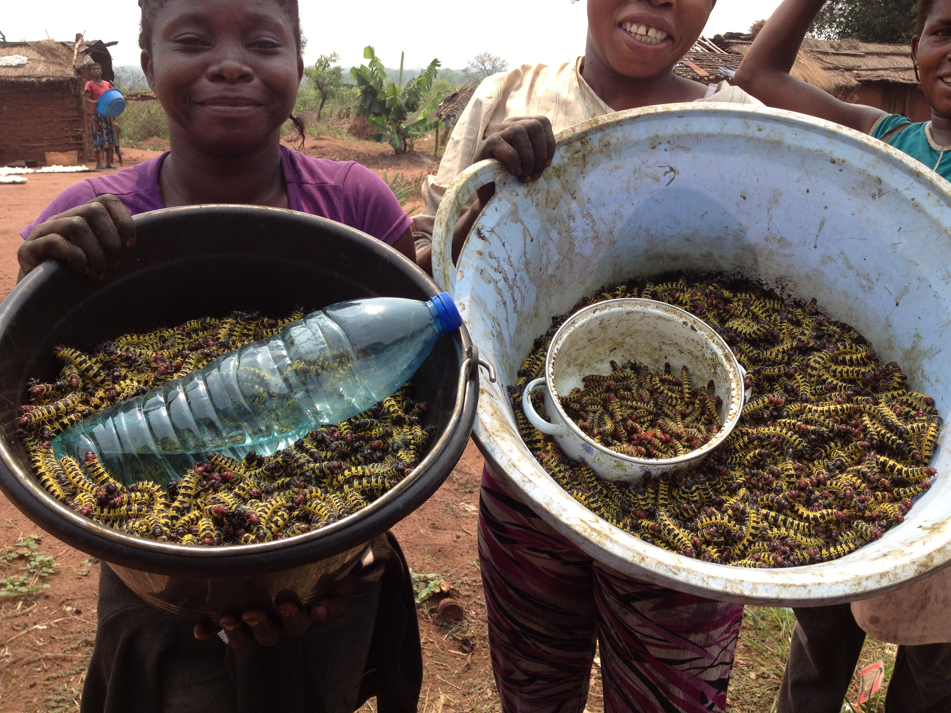 Angolian typical dish This is an image of food from Angola